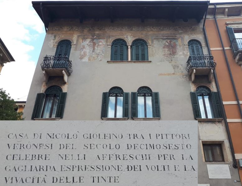 Birthplace of Nicola Giolfino (Verona, 1476 - Verona, 1555), Italian painter in Verona. On the commemorative plaque it is written: House of Niccolò Giofino. Among the Veronese painters of the tenth sixth century famous in the ...